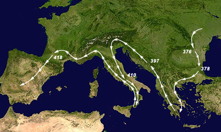 Migration of Visigoth tribes